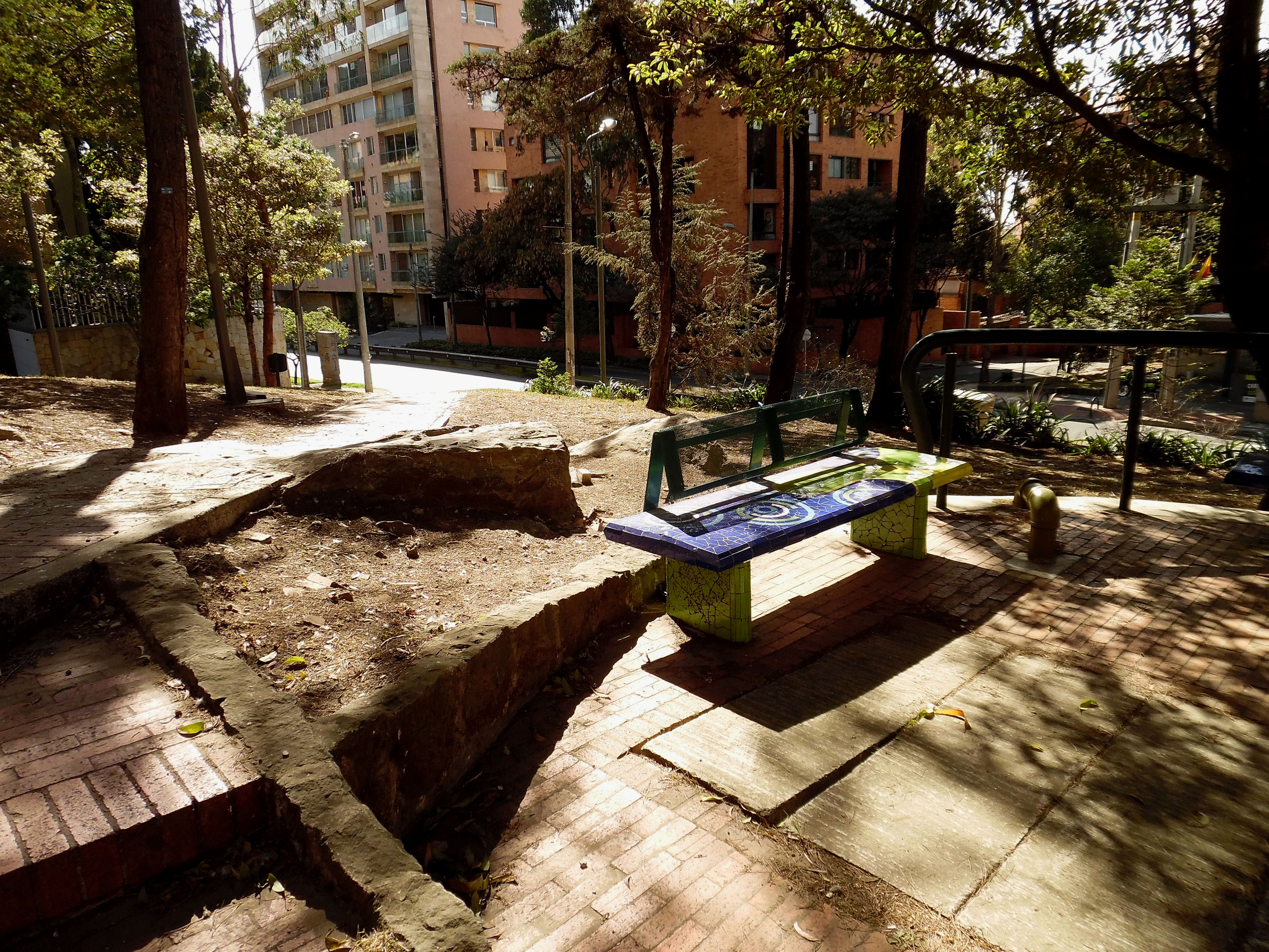 Bogotá